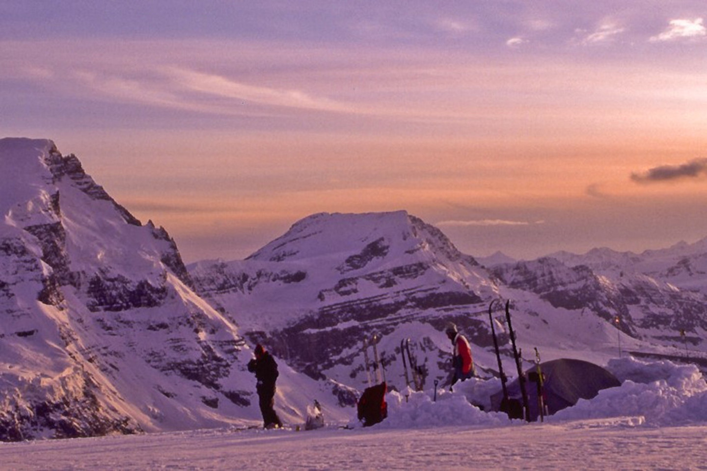 Mt. King Edward with Mt. Columbia at left on a pleasant May evening, as seen from a bivy site for the Twins, the Stutfields, Snow Dome and Mt. Kitchener. Doug's having a drink and Vic's being busy.